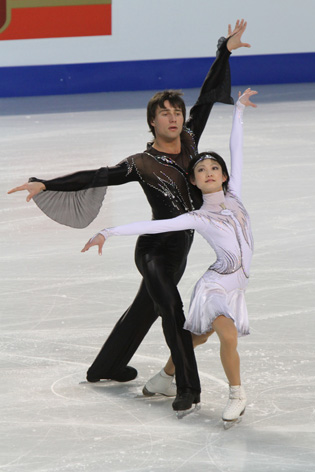 Yuko Kawaguchi and Alexander Smirnov at the 2010 European Figure Skating Championships.